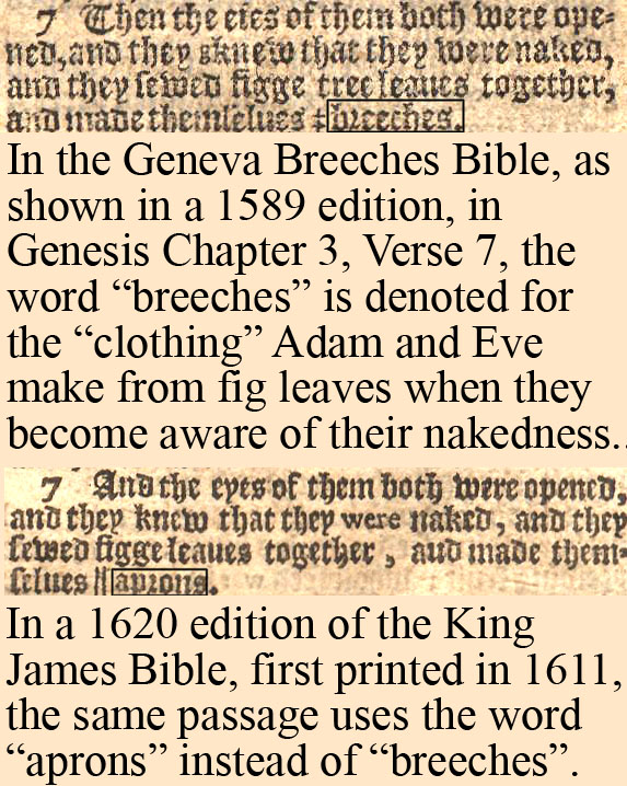 Comparison of the Geneva Bible Genesis Chapter 3, Verse 7, "breeches", and King James Version, 1611 of the same passage.